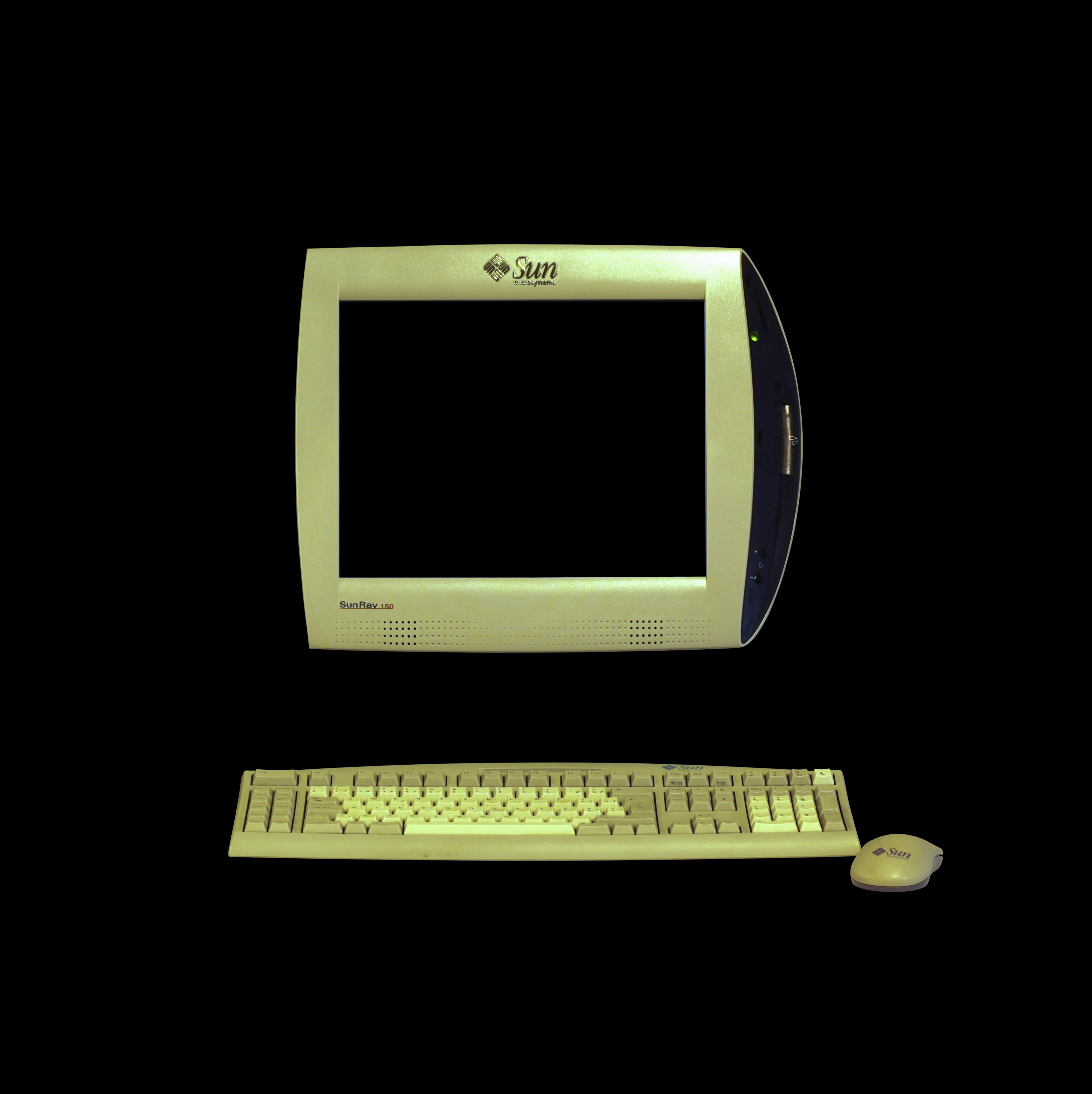 A Sun Ray 150 terminal The making of this document was supported by Wikimedia CH.(Submit your project!) For all the files concerned, please see the category Supported by Wikimedia CH.